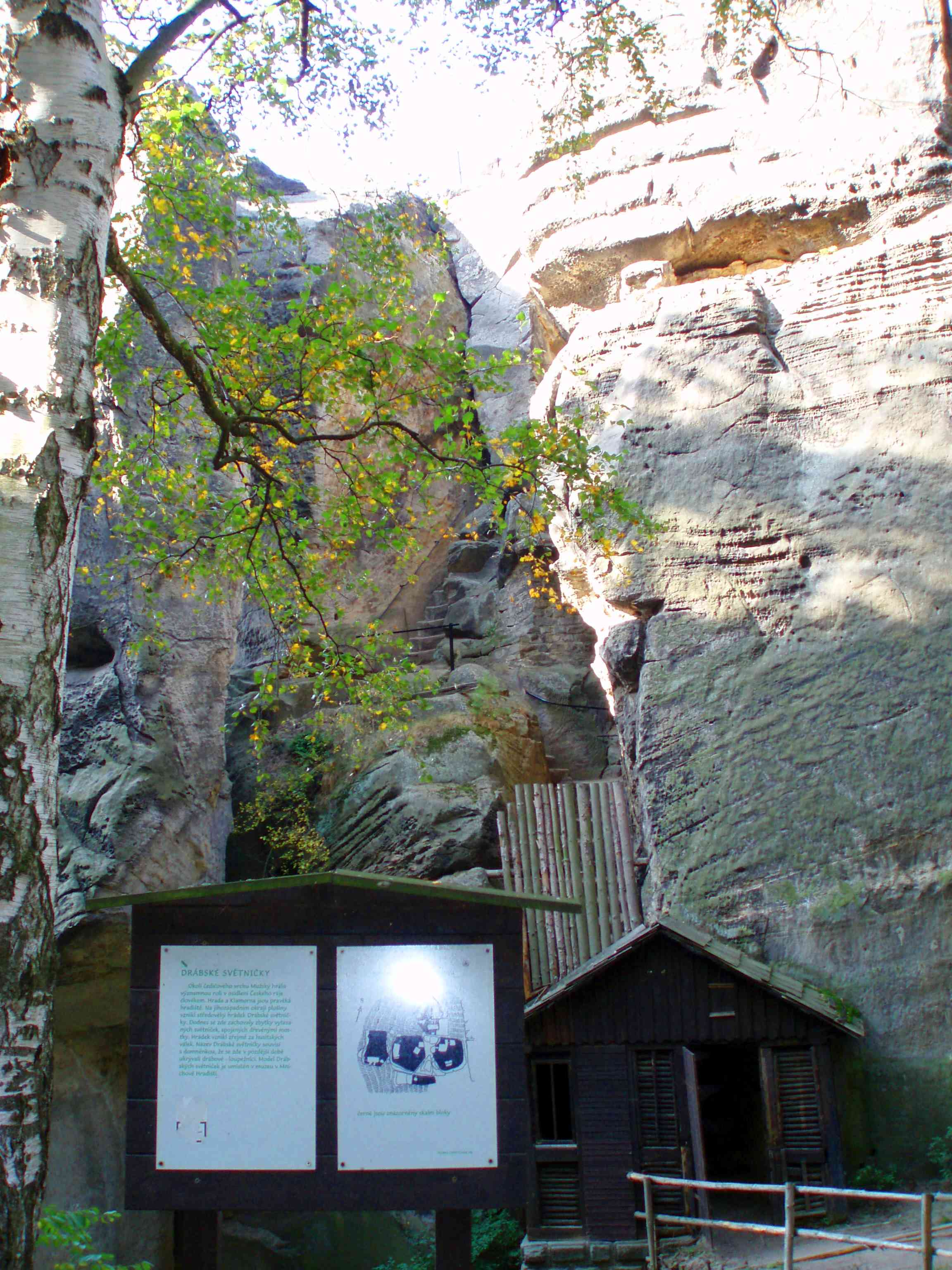 Drábské světničky rock castle near Mnichovo Hradiště, Czech Republic. Castle entrance.